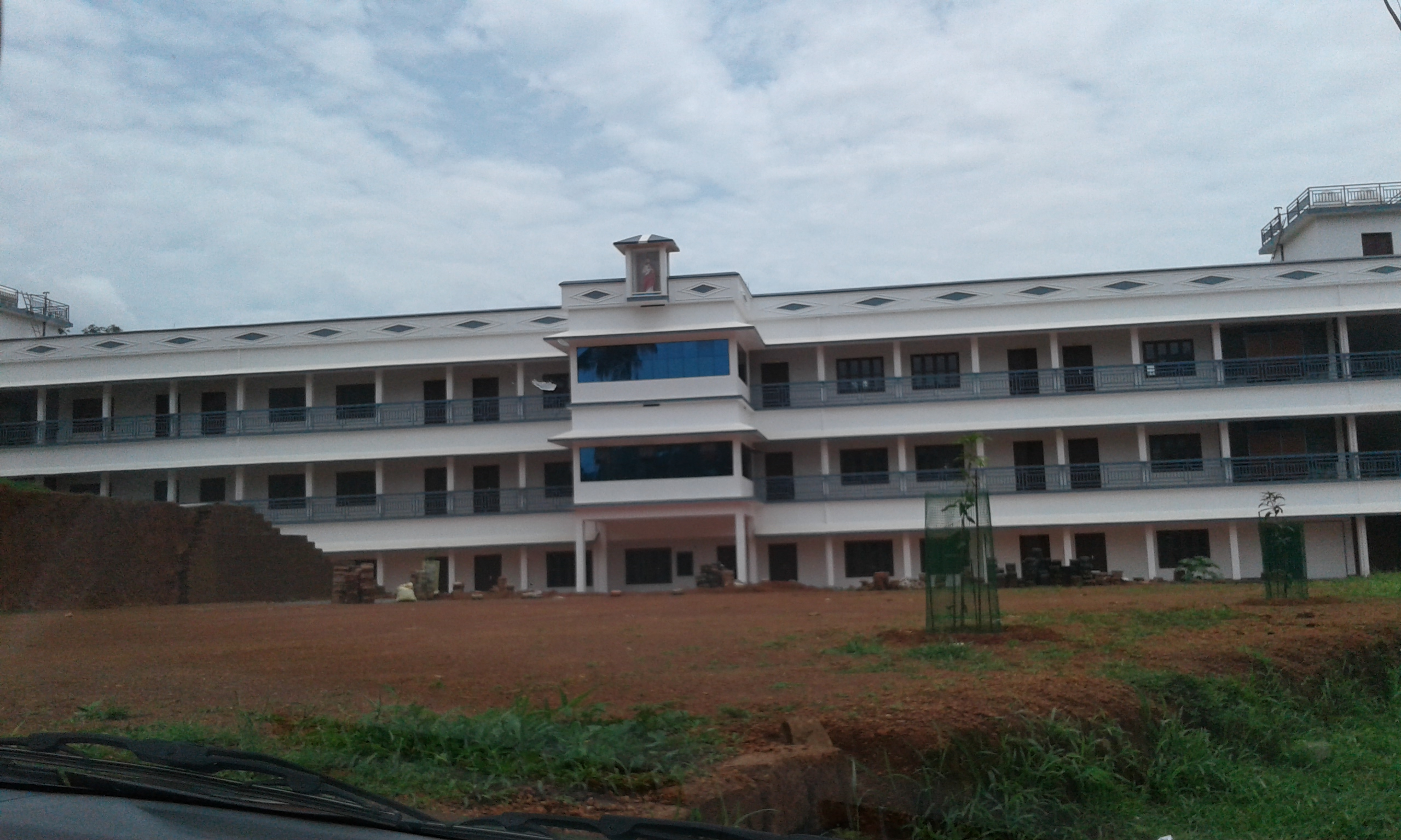 Catechism Centre